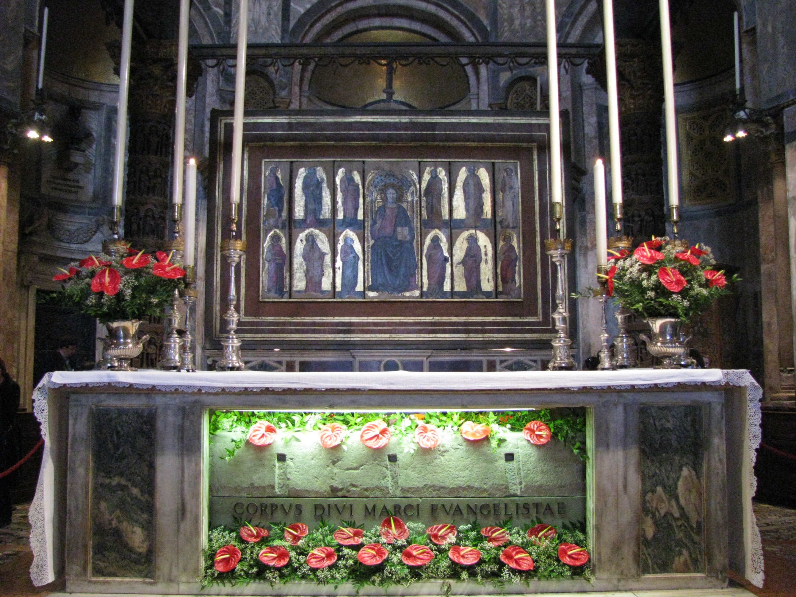 St. Mark's Basilica (altar whith relics of st. Mark)